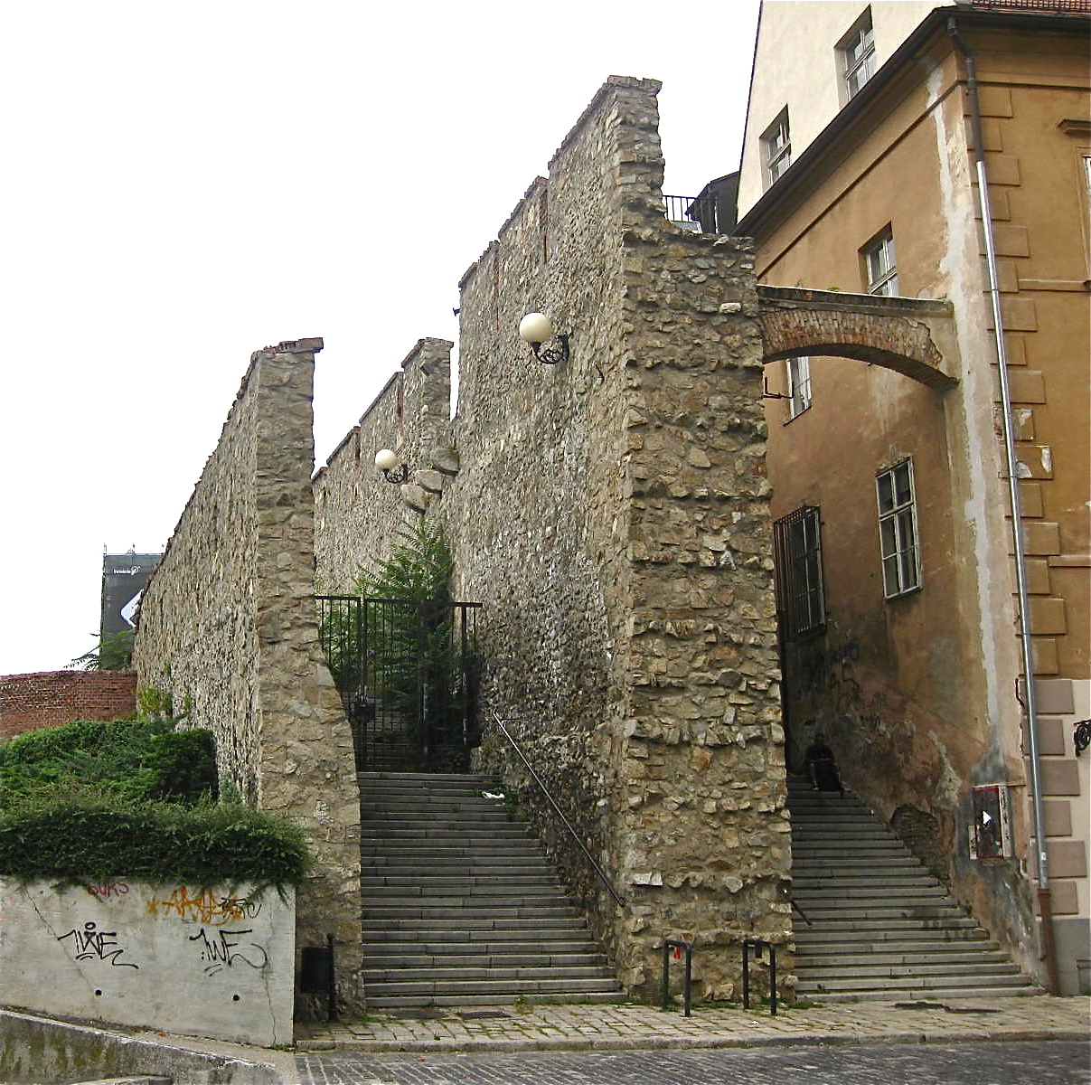 Bratislava Town Walls by St Martin's Cathedral. Shows a cross-section of the walls with a 'mantelmaur' in front